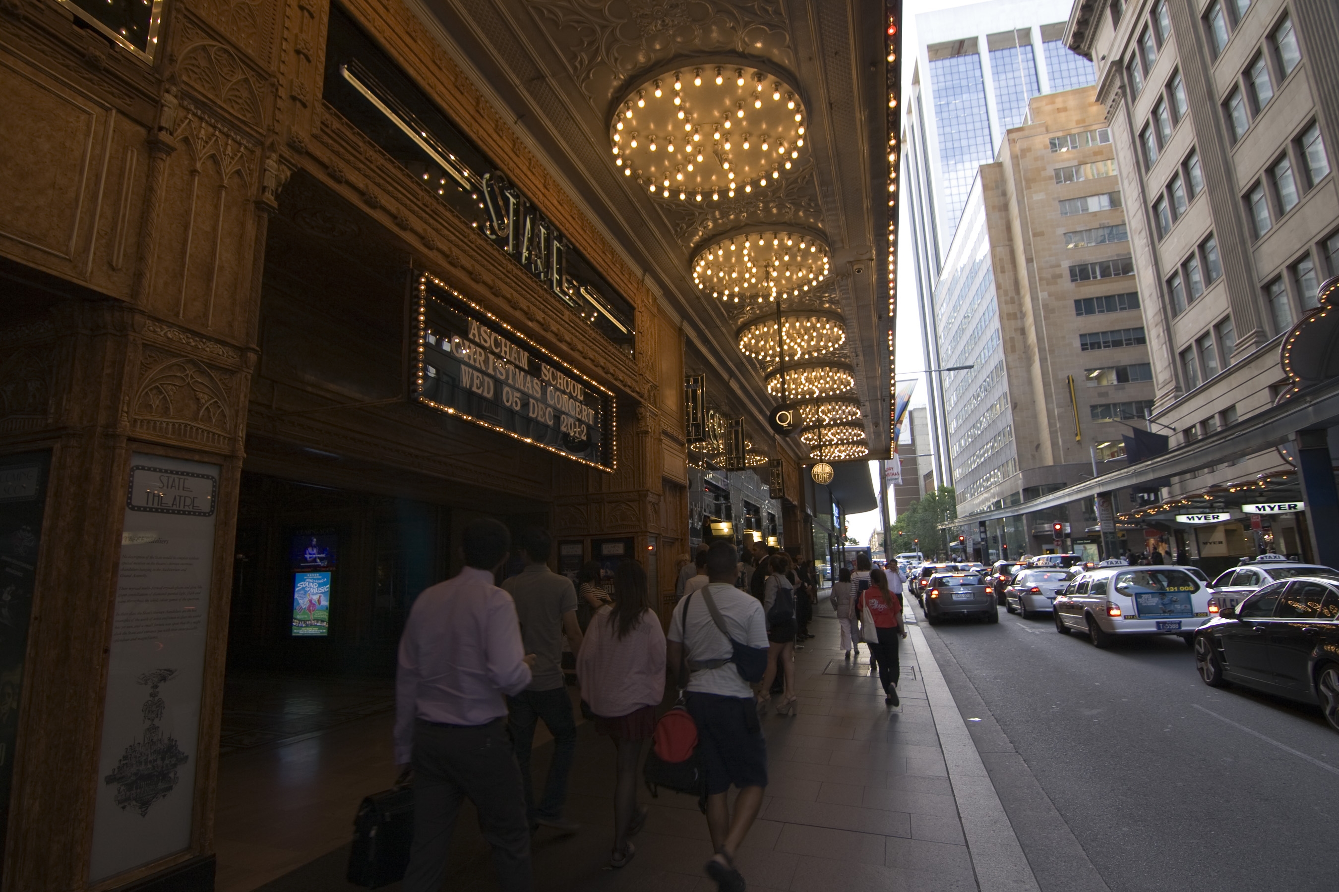 State theater